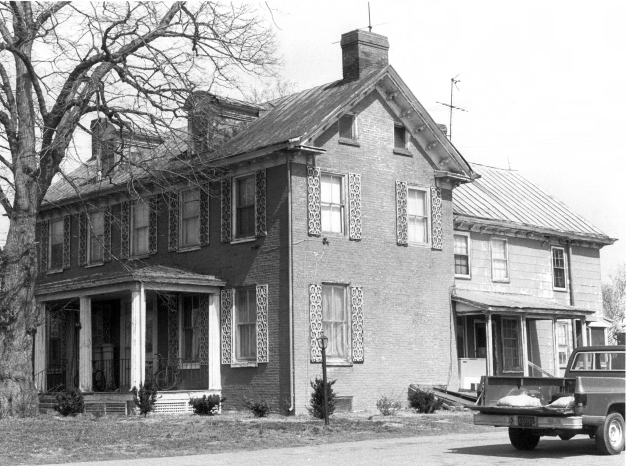 Elm Grange, St. Georges Hundred north of Odessa, Delaware. Demolished in the 2000s.